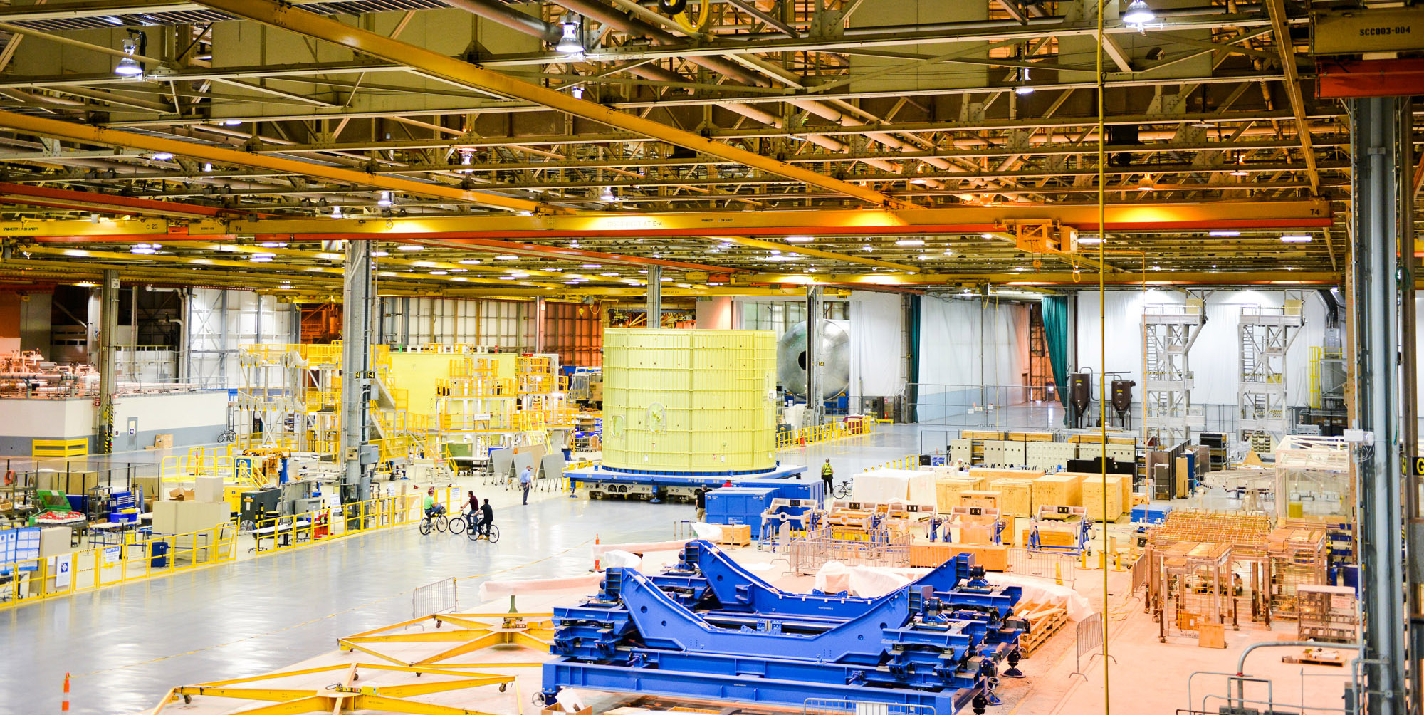 View of the NASA Chris Hadfield Rocket Factory floor, taken from a scissor lift The Space Launch System intertank, shown here moving down the factory floor, finished structural assembly at NASA’s Michoud Assembly Facility in New Orleans. Technicians moved it to an area where it will be coated with a thermal protection system. The yellow object, left back, is the engine section of the core stage, which also completed structural assembly and is being outfitted with propulsion system hardware that will feed fuel to the four RS-25 engines on the first SLS mission.